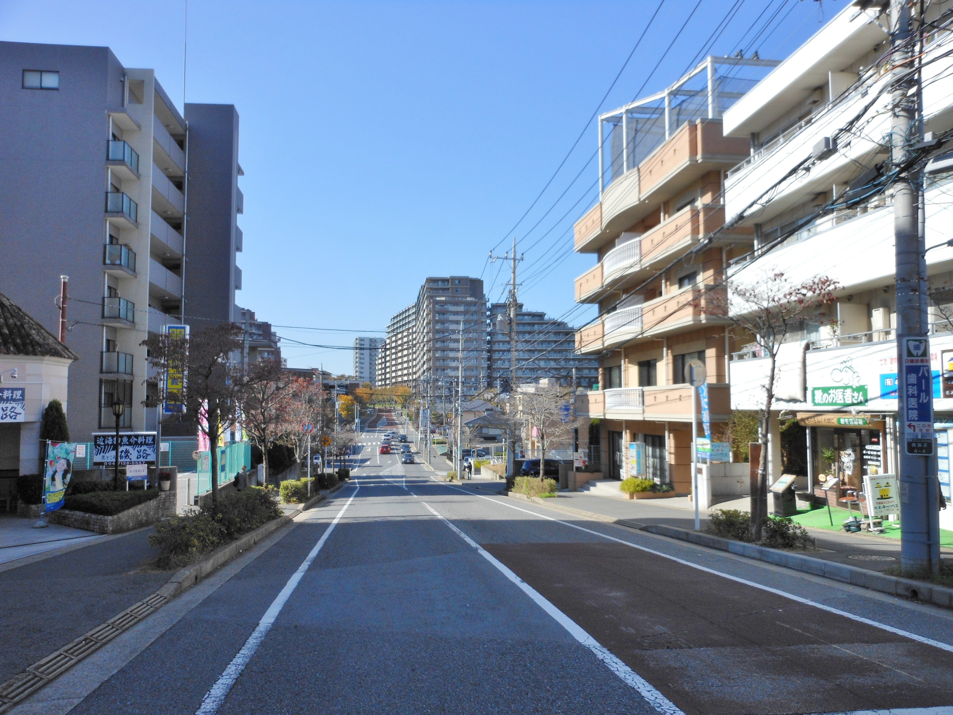 This is a landscape of Abiko 1 chome and 2 chome, Abiko, Abiko, Chiba, Japan. The left side of this picture is 1 chome and the right side of this picture is 4 chome.